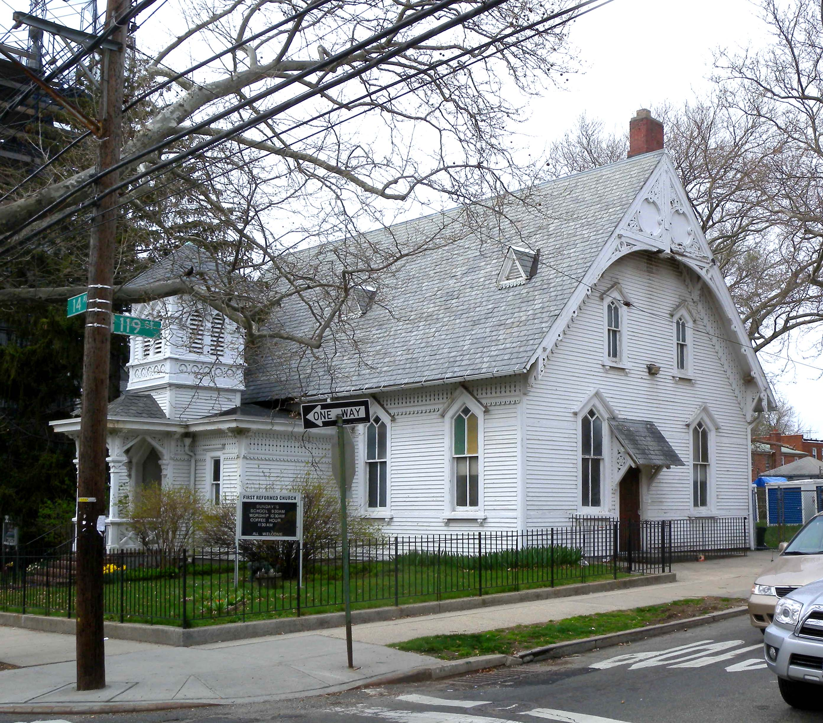 Looking northwest across 119th Street and 14th Avenue at chapel and Sunday school of First Reformed Church of College Point on a cloudy midday.